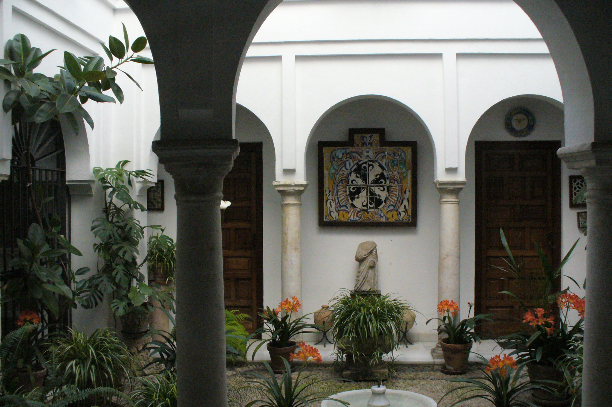 Courtyard patio in Córdoba, Andalusia. Taken by K. Popova in April 2006